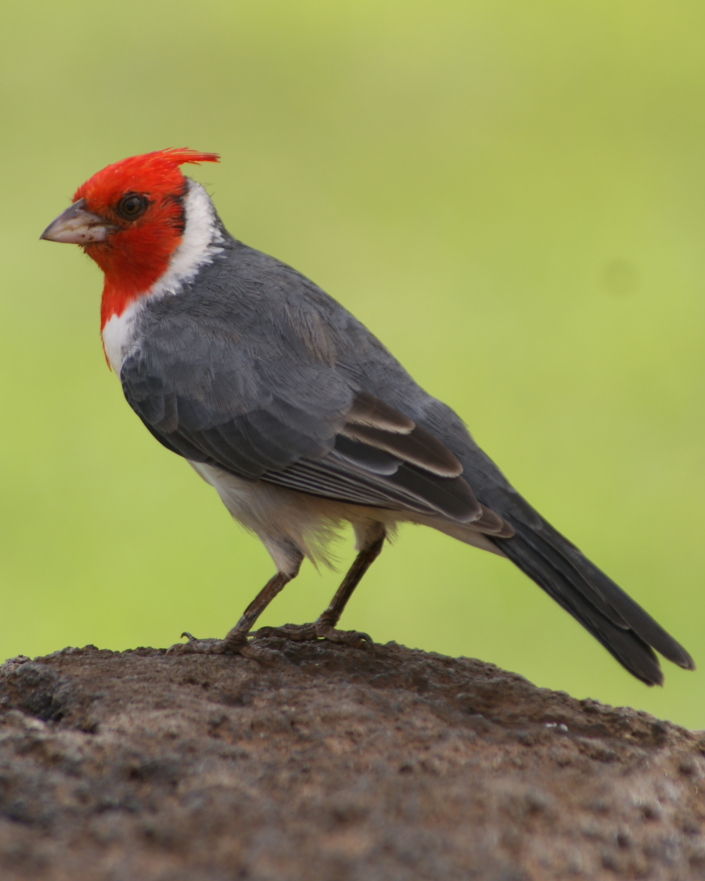 A red-crested cardinal at the Honolulu Zoo, Oahu.